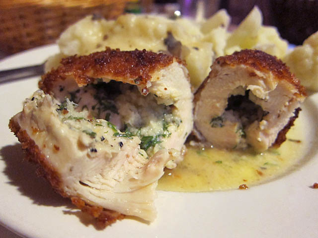 Chicken Kiev from a Ukrainian East Village restaurant.